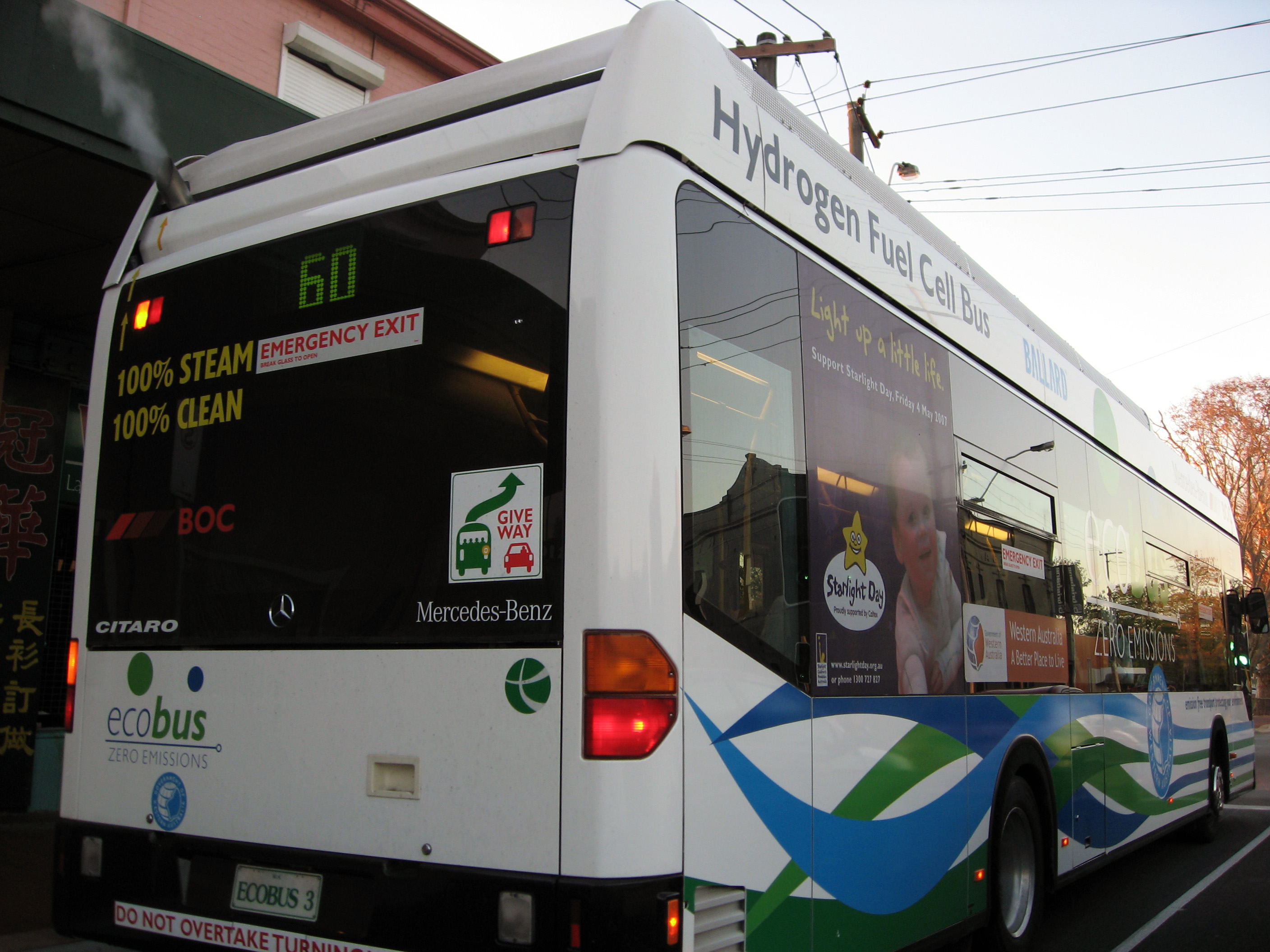 A hydrogen fuel cell public bus accelerating at traffic lights in Perth, Western Australia.